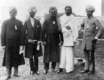 Swami Vivekananda in World Parliament of Religions, 1893 in Chicago. In the photo: (from left to right) "Narasimha Chaira [Narasimhacharya of Chennai], Lakeshnie Narain [Lakshmi Narain, a barrister from Lahore], Swami Vivekananda, H. Dharmapala [Anagarika Hewivitarne Dharmapala, a Buddhist from Ceylon and later the founder of the Mahabodhi Society in Kolkata], and Vichand Ghandi [Virchand Gandhi, a lawyer of Mumbai and the chief exponent of the Jain religion.]"